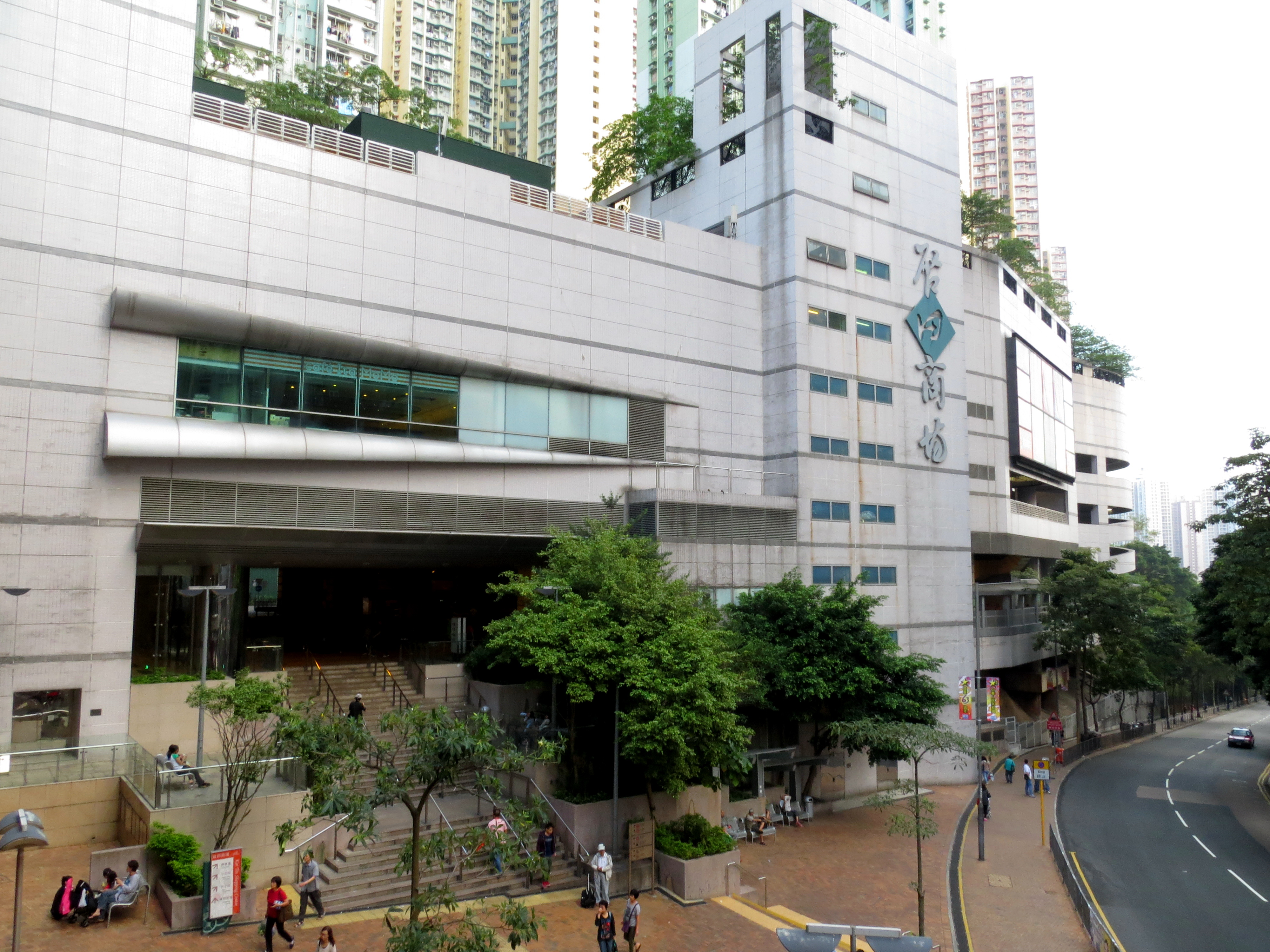 Kai Tin Shopping Centre, Lam Tin, Kowloon, Hong Kong.